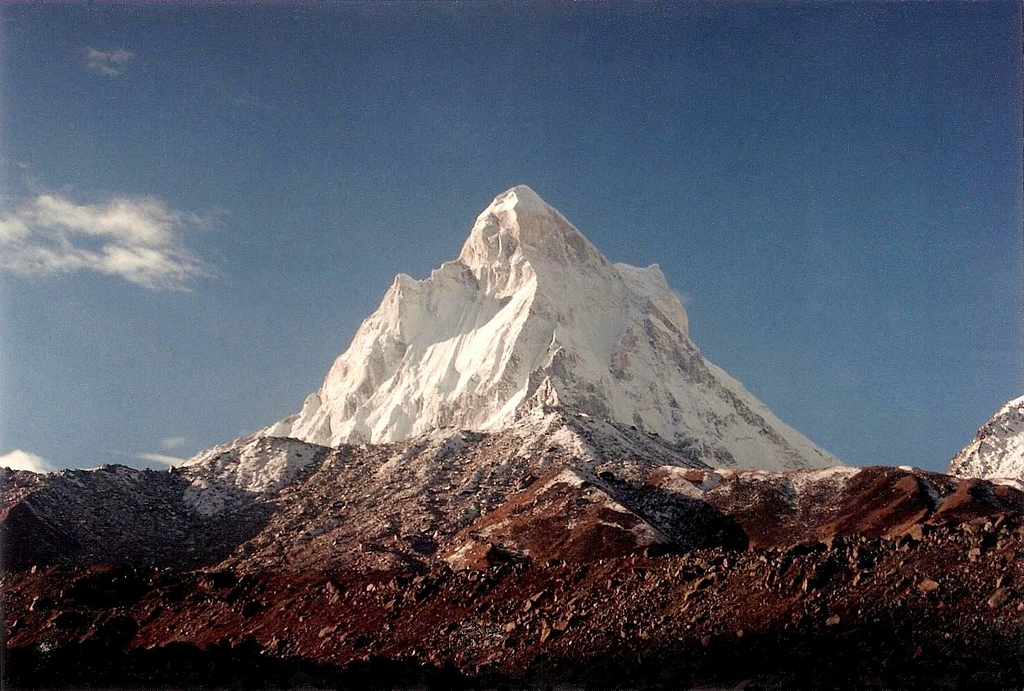 Shivling (6543 m) in Uttarakhand, India